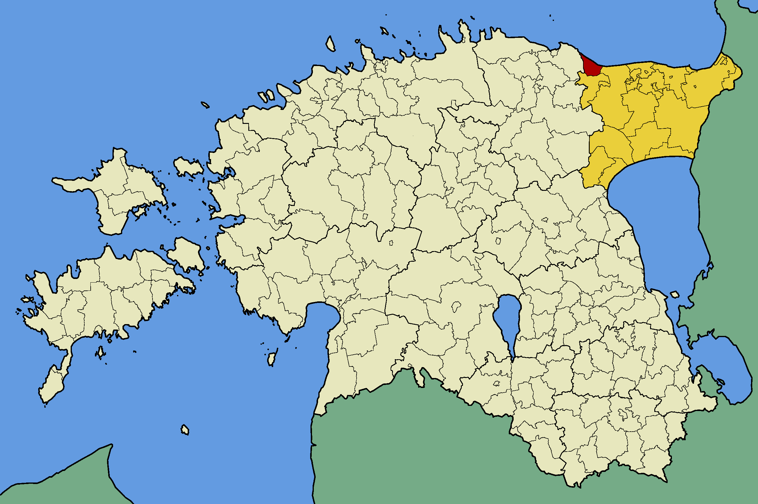 Map of Estonia with borders of municipalities (parishes). Ida-Viru county and Aseri municipality emphasized.